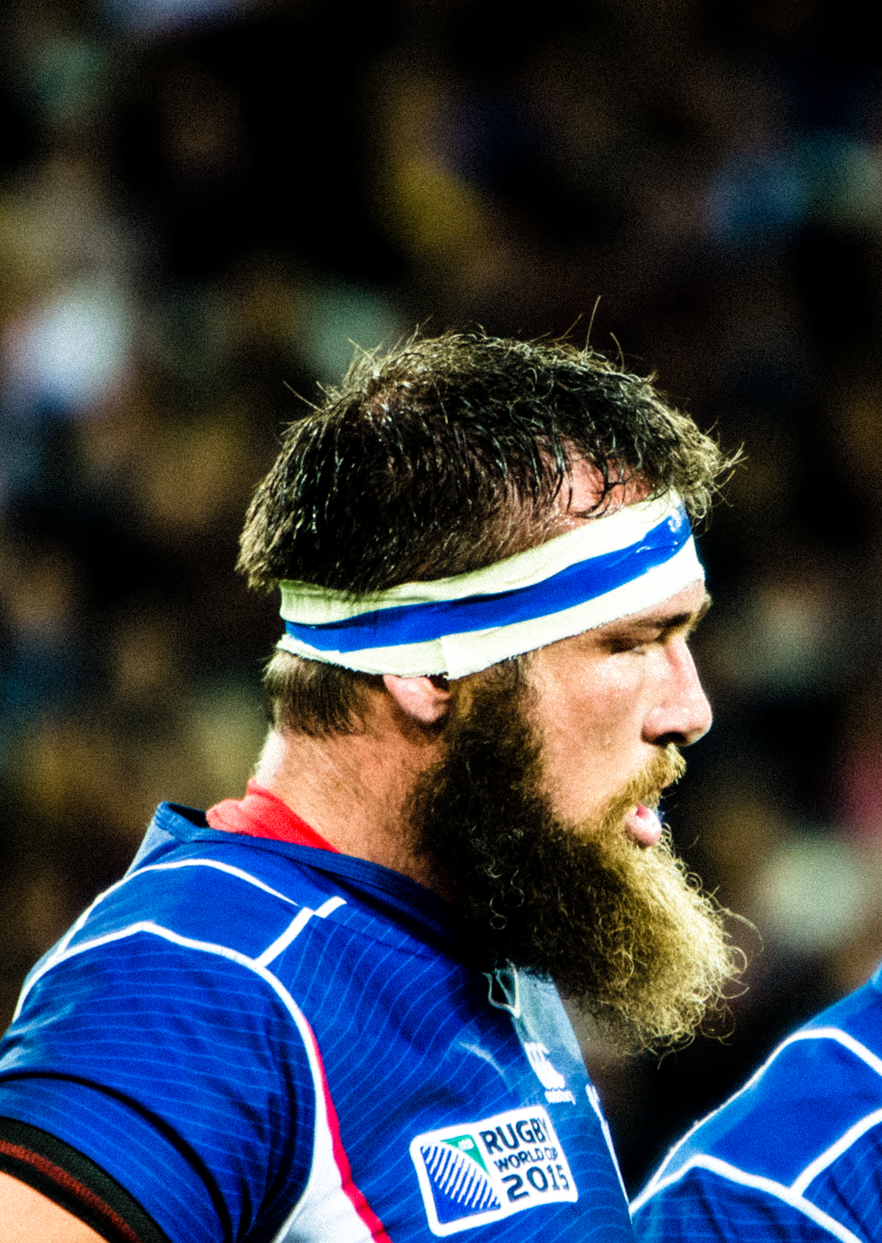 Namibia national rugby union team before the 2015 Rugby World Cup match against New Zealand played at the Olympic Stadium in London.